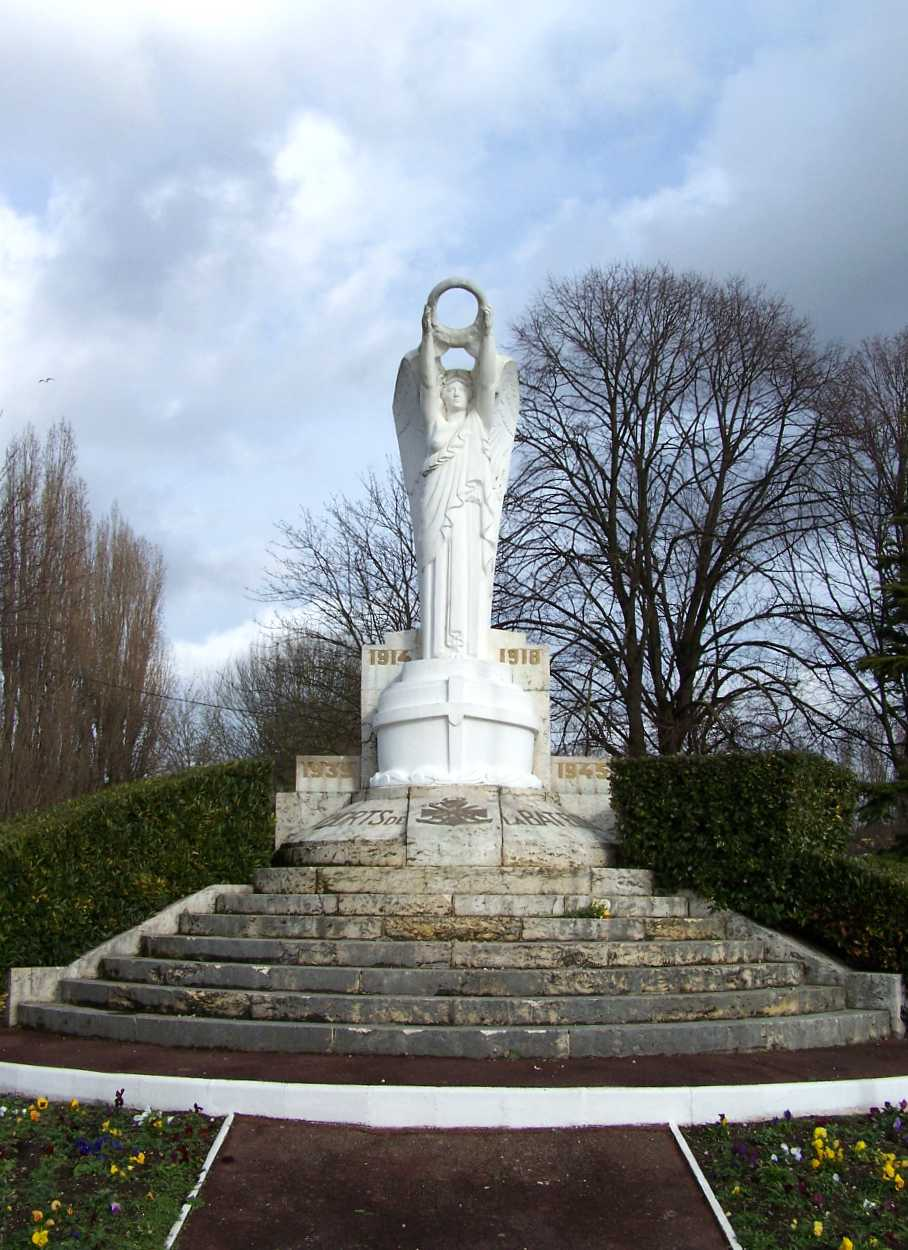 War memorial for inland water sailors at the Pointil in Conflans-Sainte-Honorine (Yvelines, France)